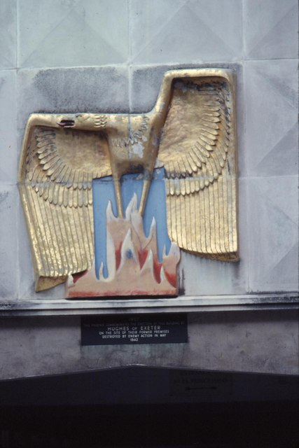 Exeter Phoenix in Princesshay, 1980 The symbol of the phoenix was used to represent the reconstruction of Exeter after the second world war. The text does not refer to any nationality, simply referring to "enemy action". A similar text was used for other plaques which marked reconstruction, a reminder of the desire for peace and reconciliation. This sculpture appears to have been lost in the redevelopment of Princesshay.